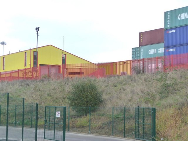 Wakefield Europort A European rail freight terminal, close to warehouses and motorways.